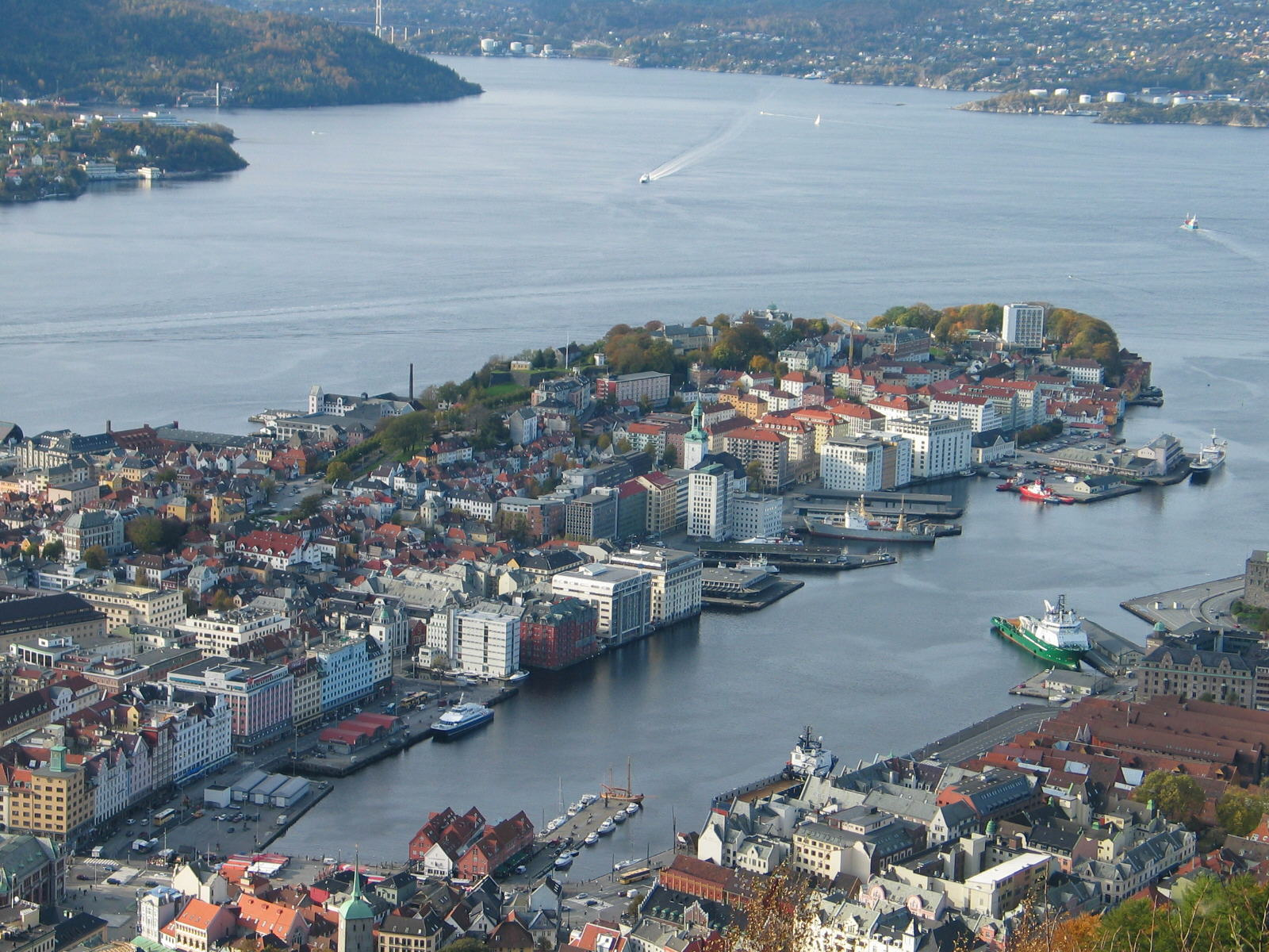 View of central harbour part of Bergen in Norway